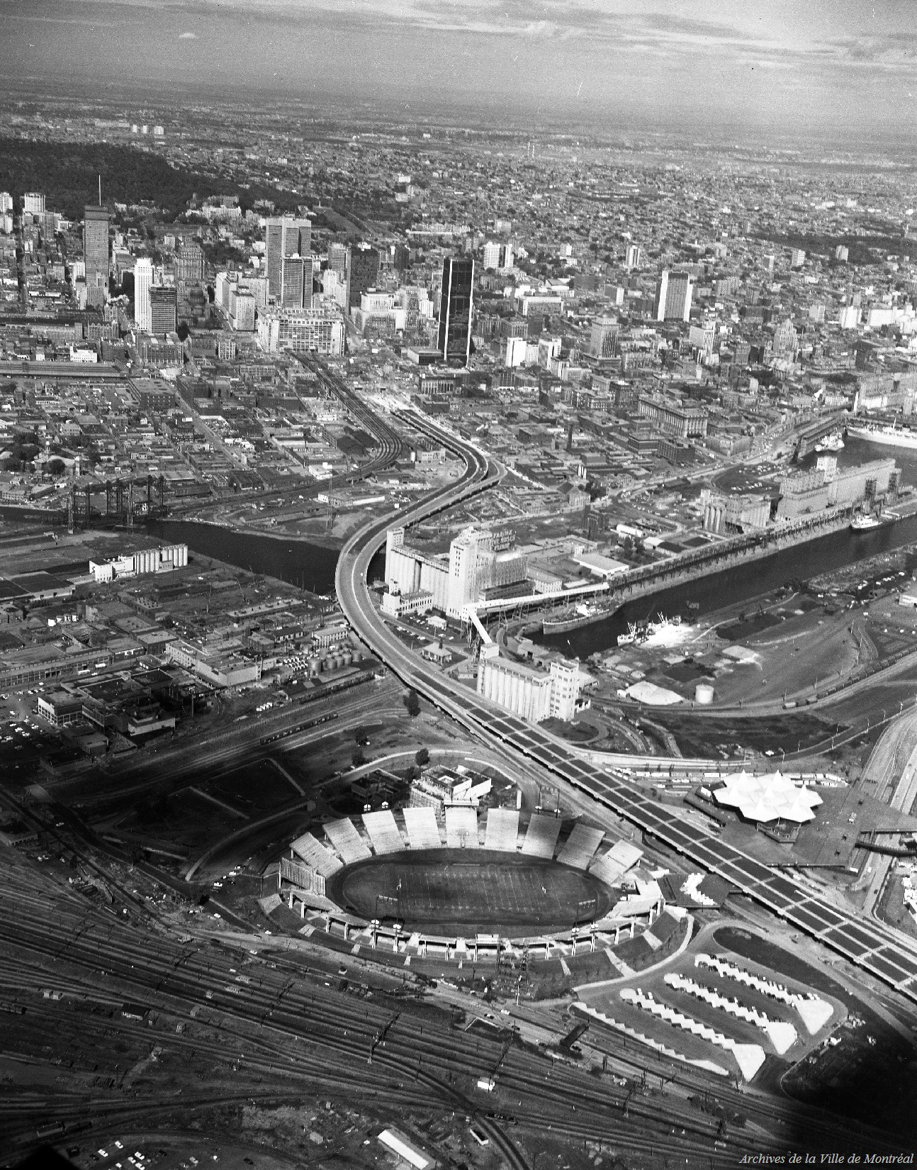 Aerial view of the Montreal Autostade in 1966